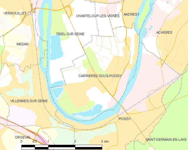 Map of French municipality Carrières-sous-Poissy